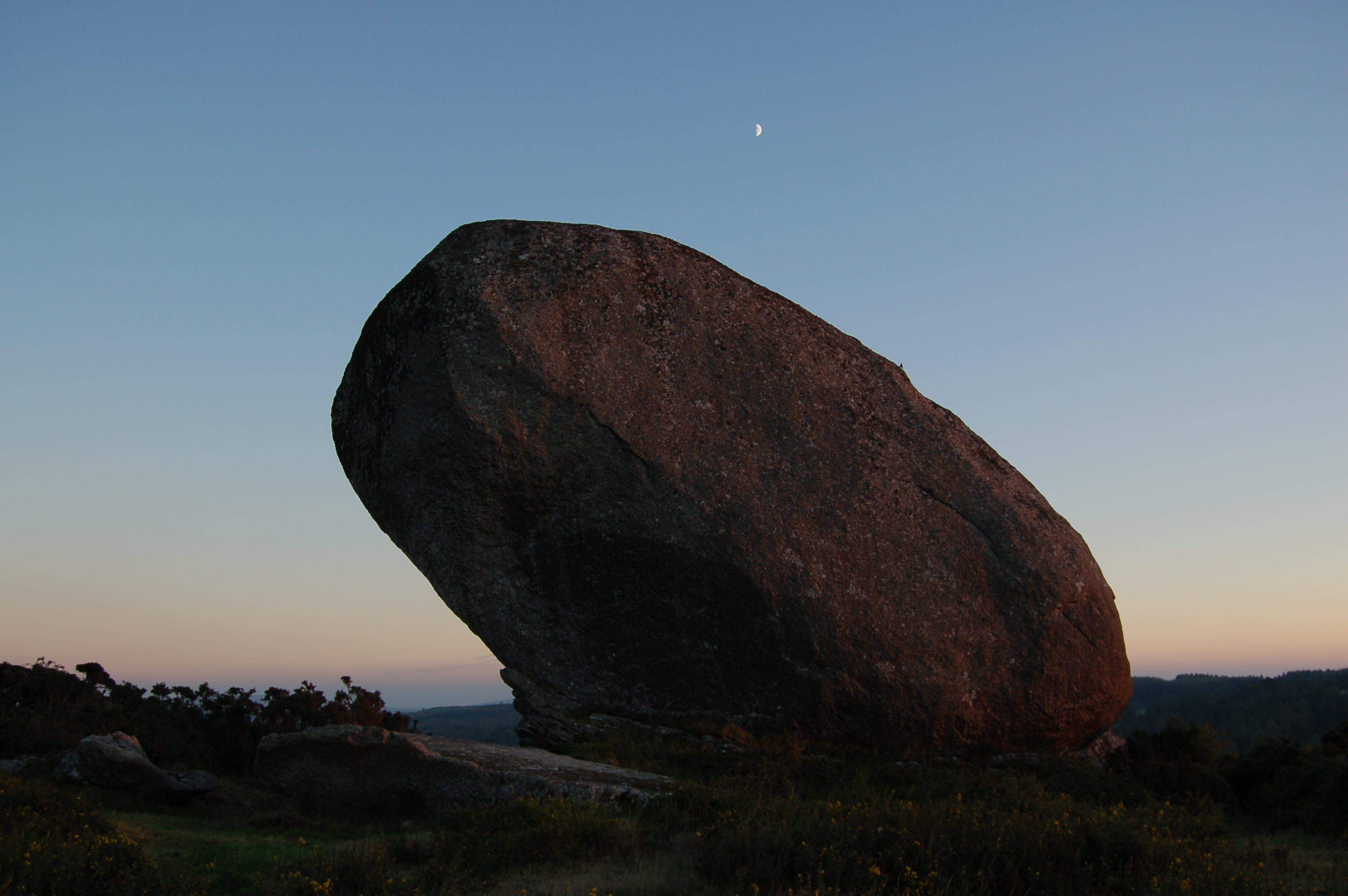 Pena da Moura nos Montes do Bocelo